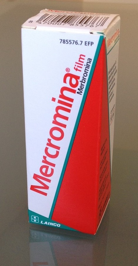 A Box containing a bottle of Mercromina